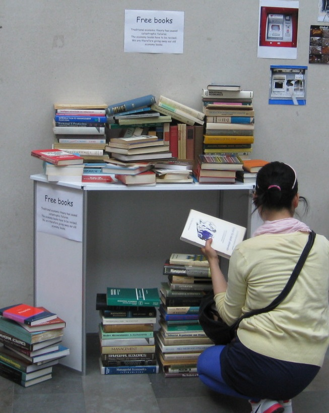 The Occupy wall street movement in Denmark offered piles of obsolete economy books for free at a conference in Copenhagen in 2013 as a happening to emphasize the need to rewrite textbooks on topics of money creation and growth. The sign reads: "Free books. Traditional economic theory has created catastrophic failures. The economy books have to be revised. We are therefore giving away our old economy books."